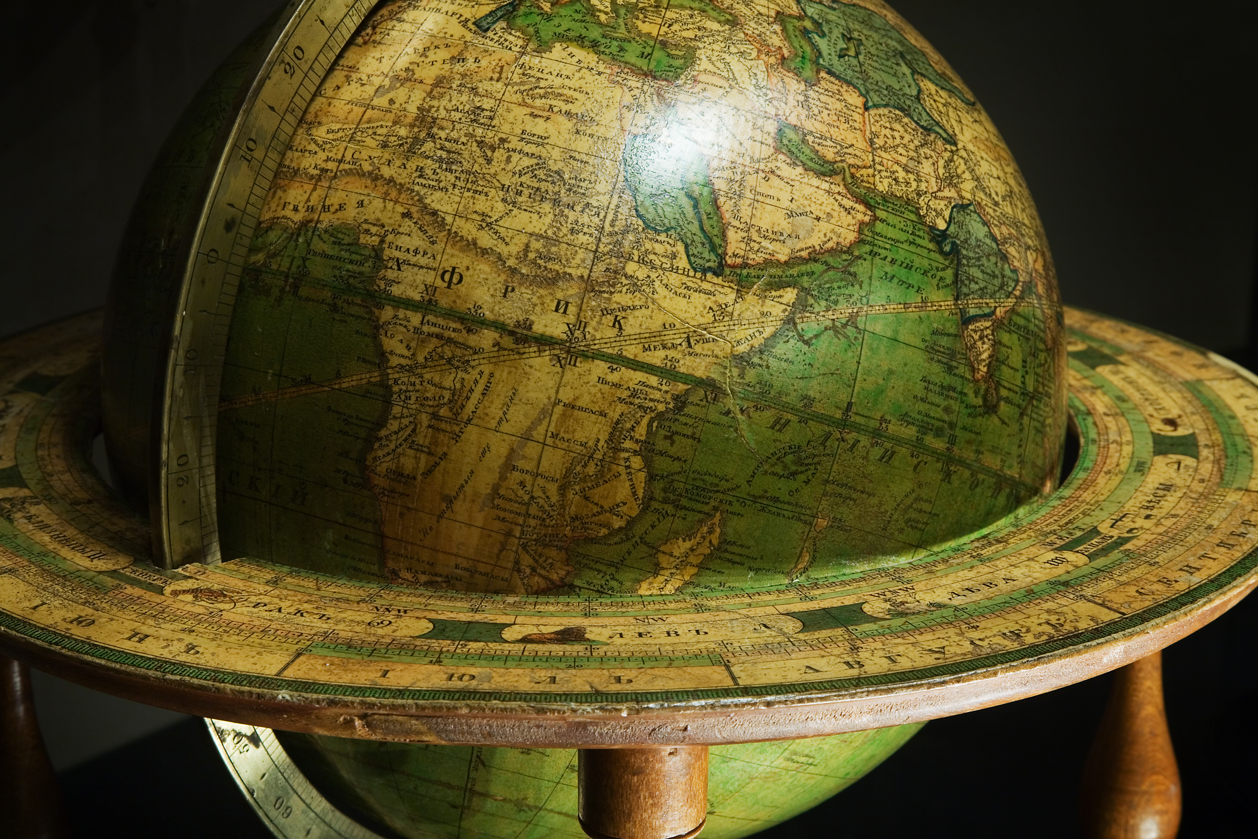 Baroque World Globe